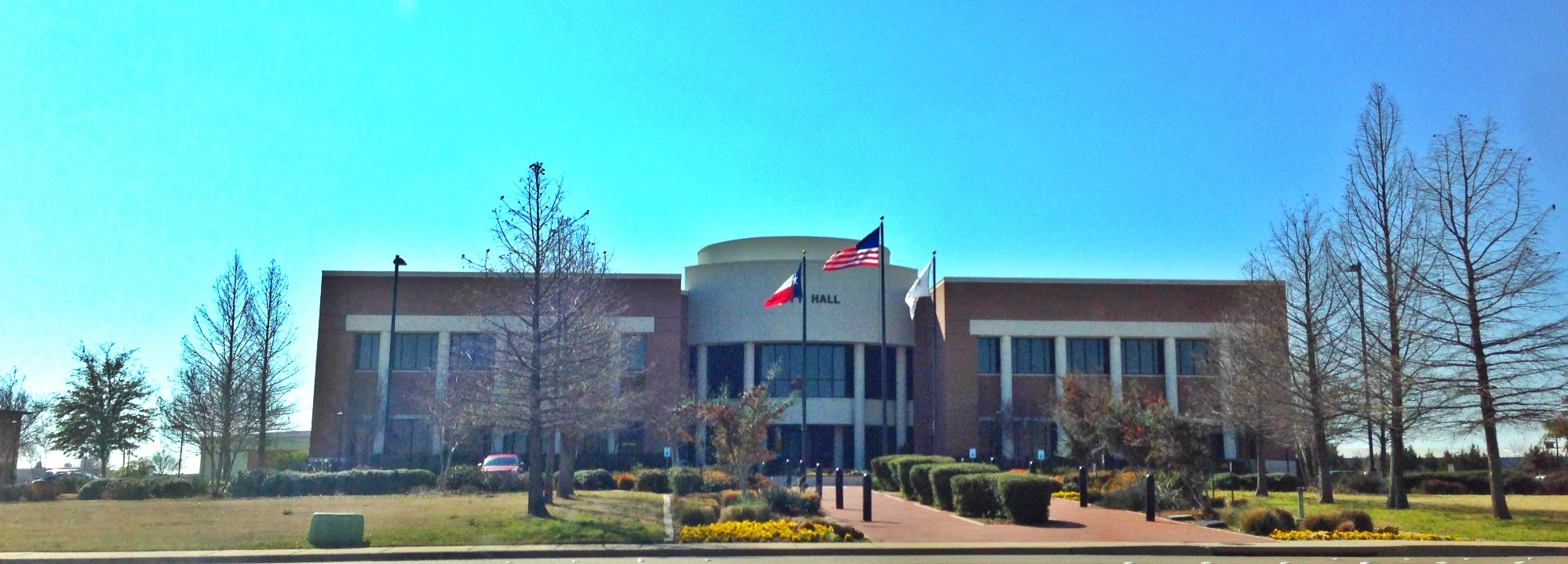 View of Mansfield City Hall (Texas)